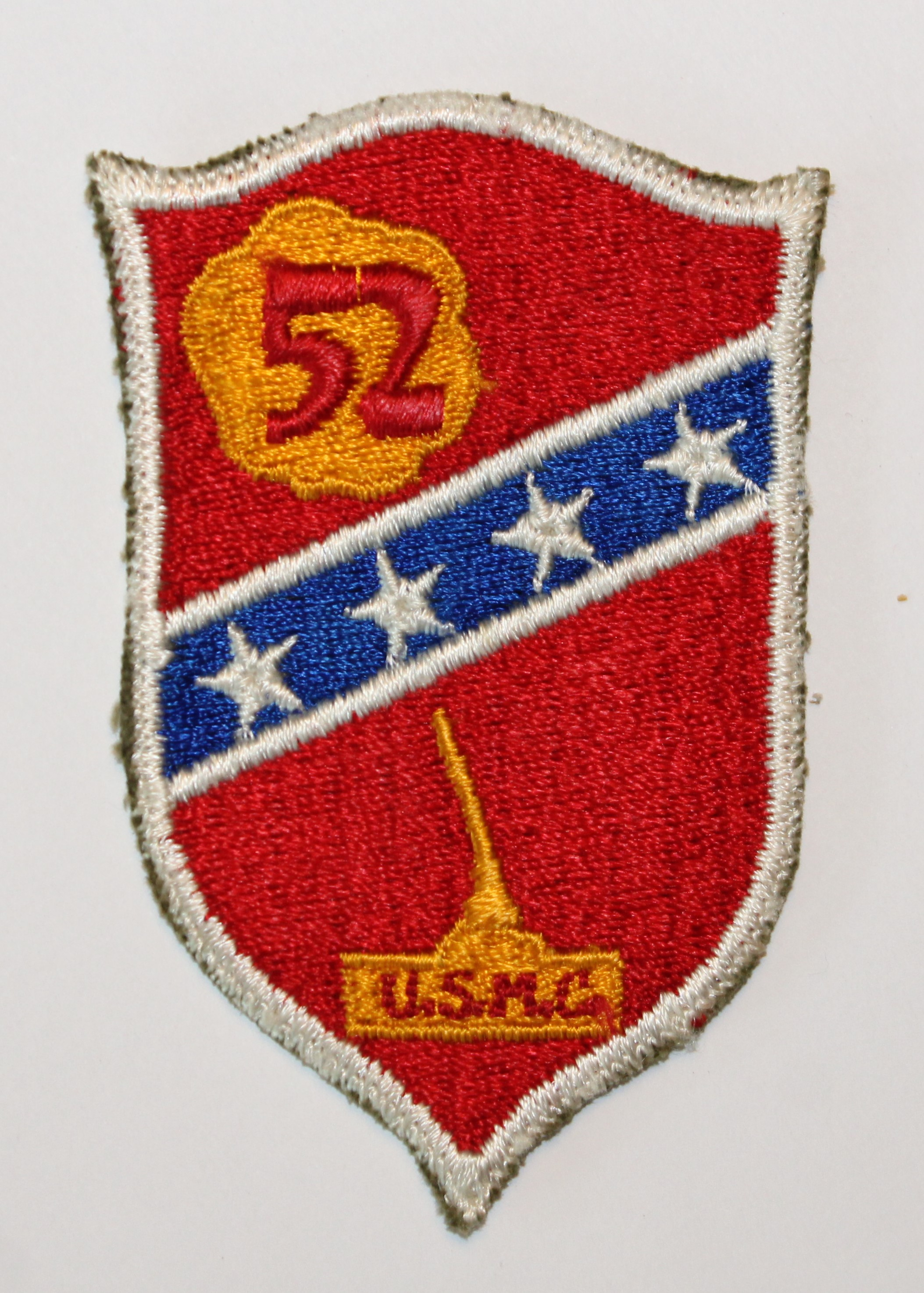 Shoulder sleeve for the 52d Defense Battalion.